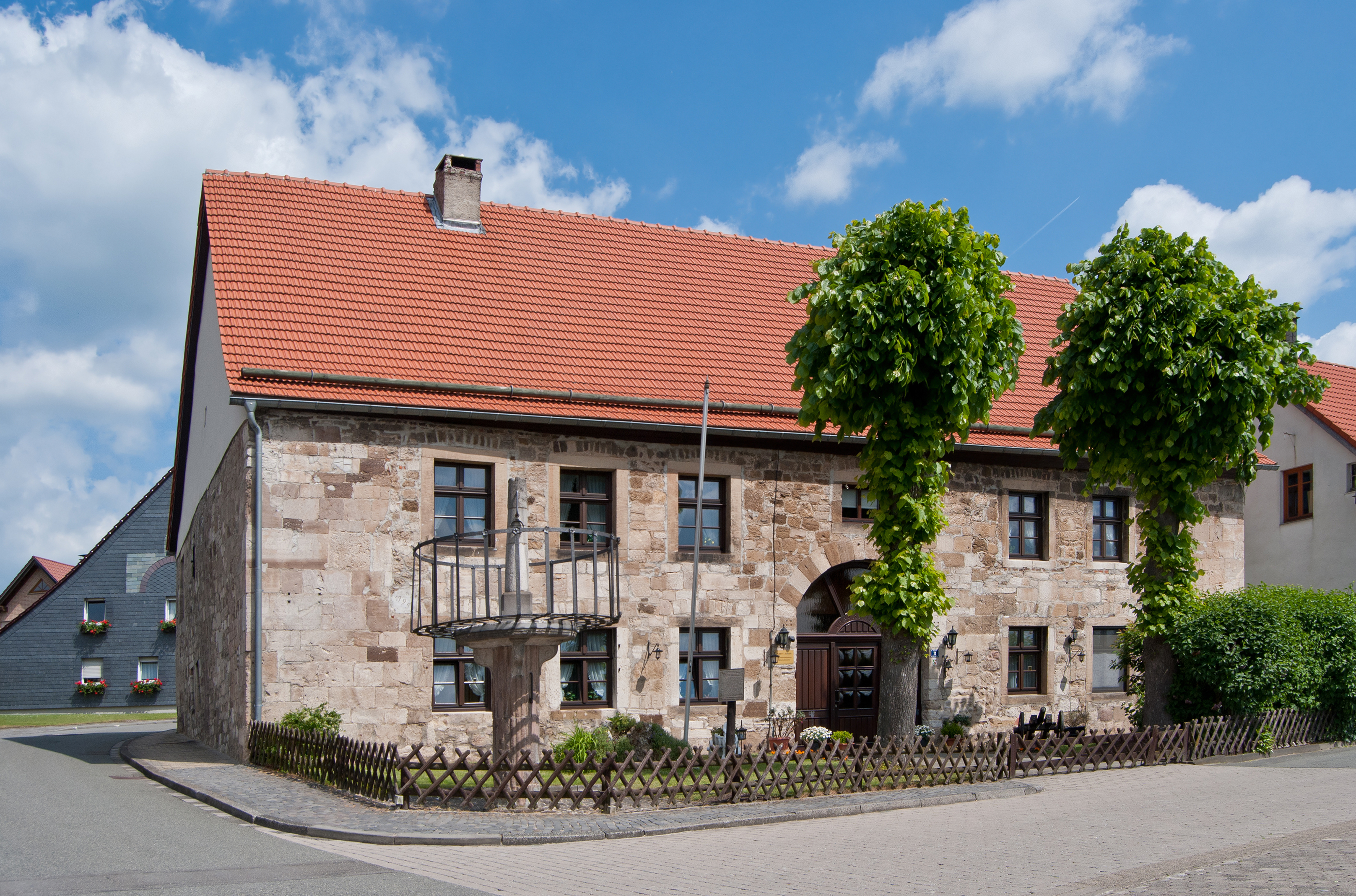 Marsberg (North Rhine-Westphalia, Germany) – district Obermarsberg – old town hall with pillory This image shows a heritage building in Germany, located in the North Rhine-Westphalian city Marsberg (no. 7). This photograph was taken with a Nikon D3000